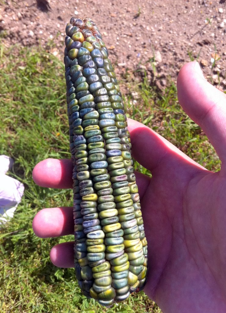 Green Oaxaca corn